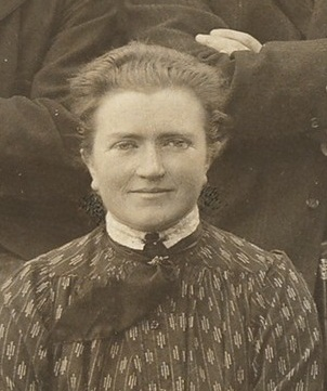 Janet Lane-Claypon one of the first women to work in the Lister Institute.